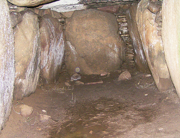 View from inside a Passage grave at Hulbjerg, Langeland, Denmark